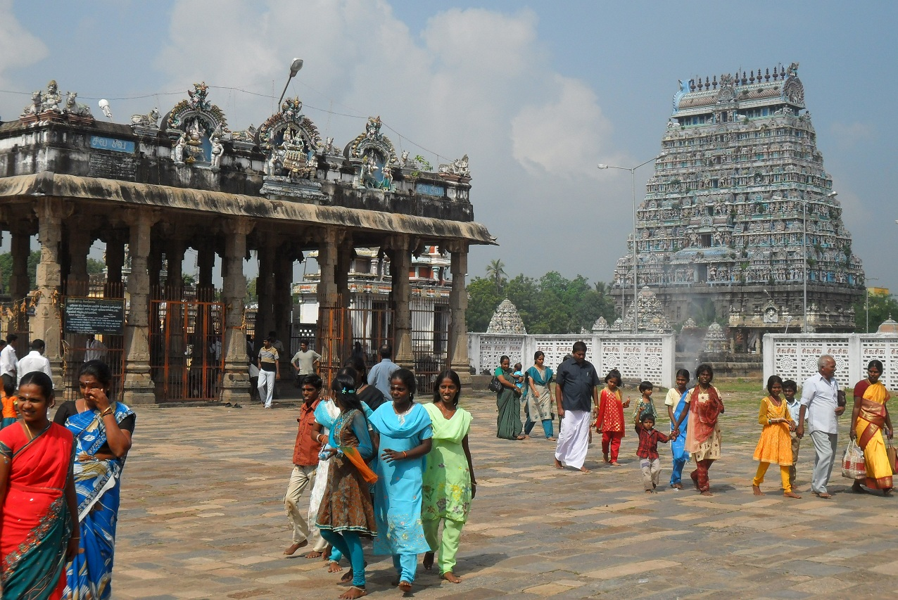 Temples of Kanchipuram, Tamil Nadu, India